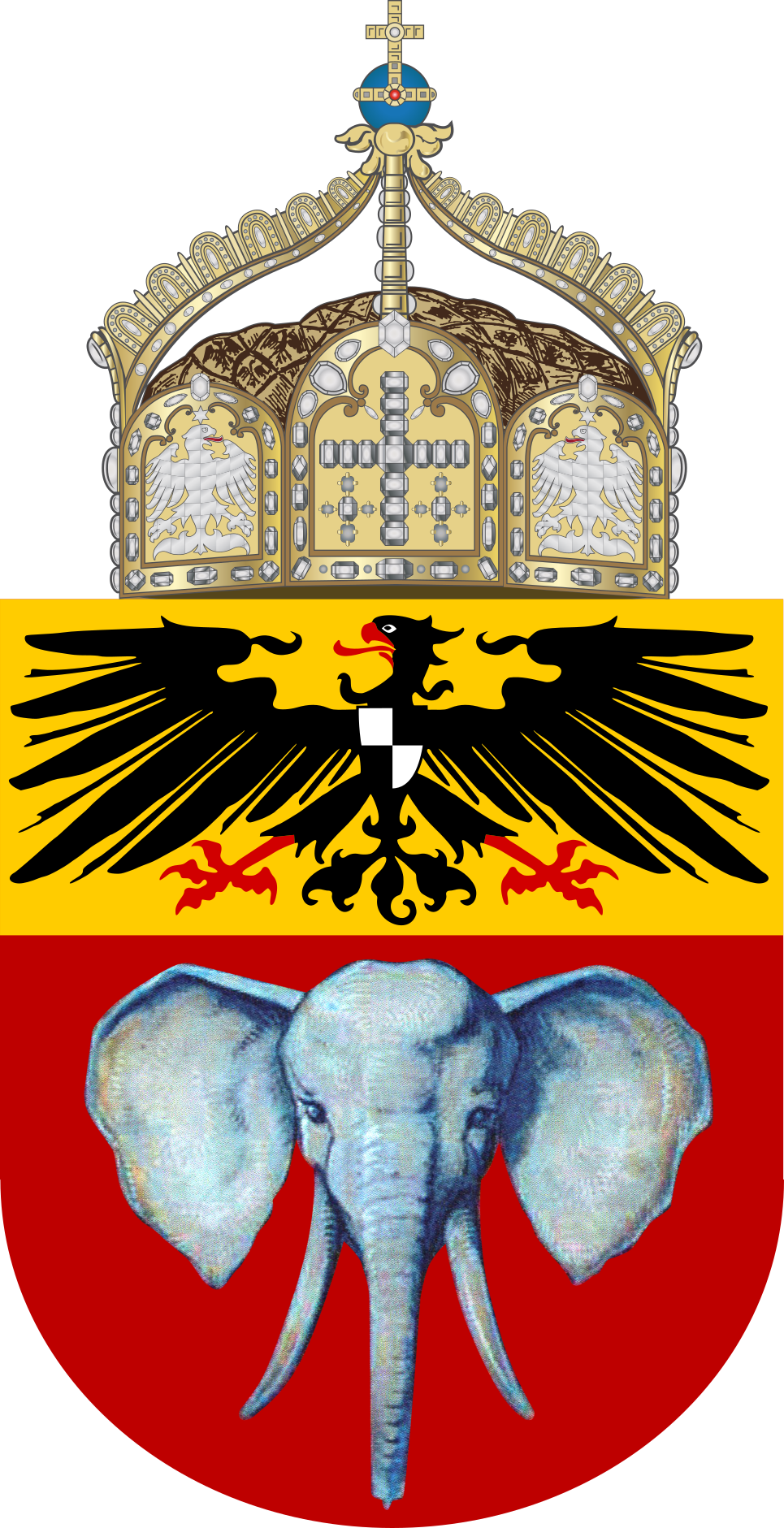 Proposed Coat of Arms for German Cameroon, 1914